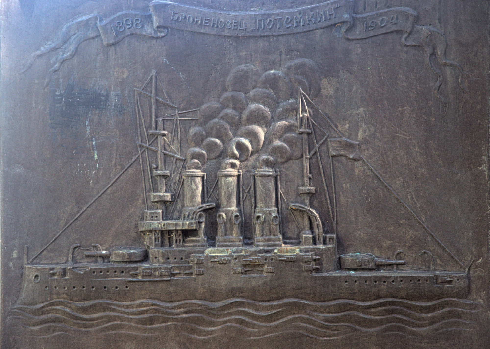 Potemkin battleship, monument, Mykolayiv, Ukraine